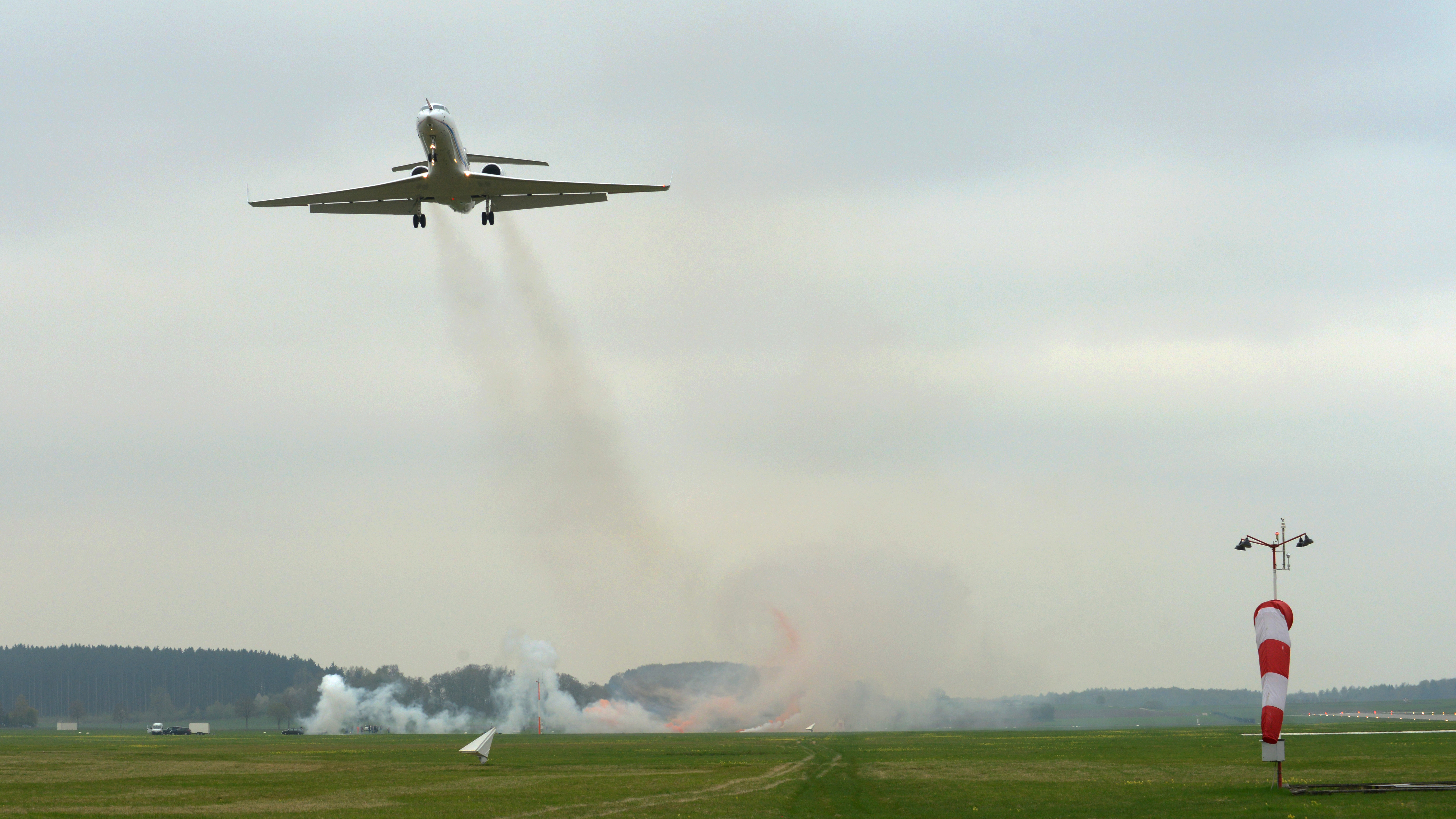 HALO fly-over: At 22 metres high, HALO flies over the experiment. In the smoke, the two wake vortices are visible.